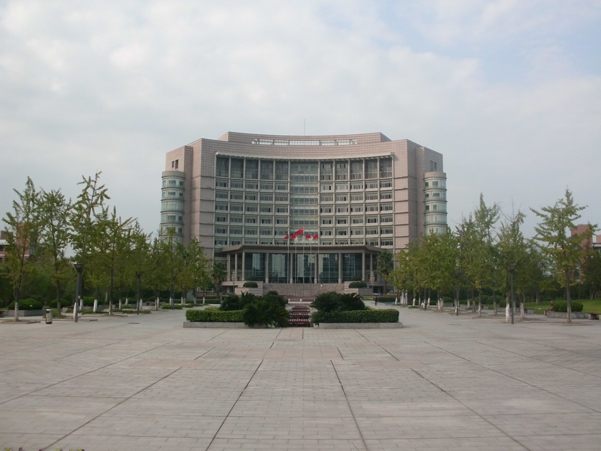 Zhejiang Sci-Tech University campus